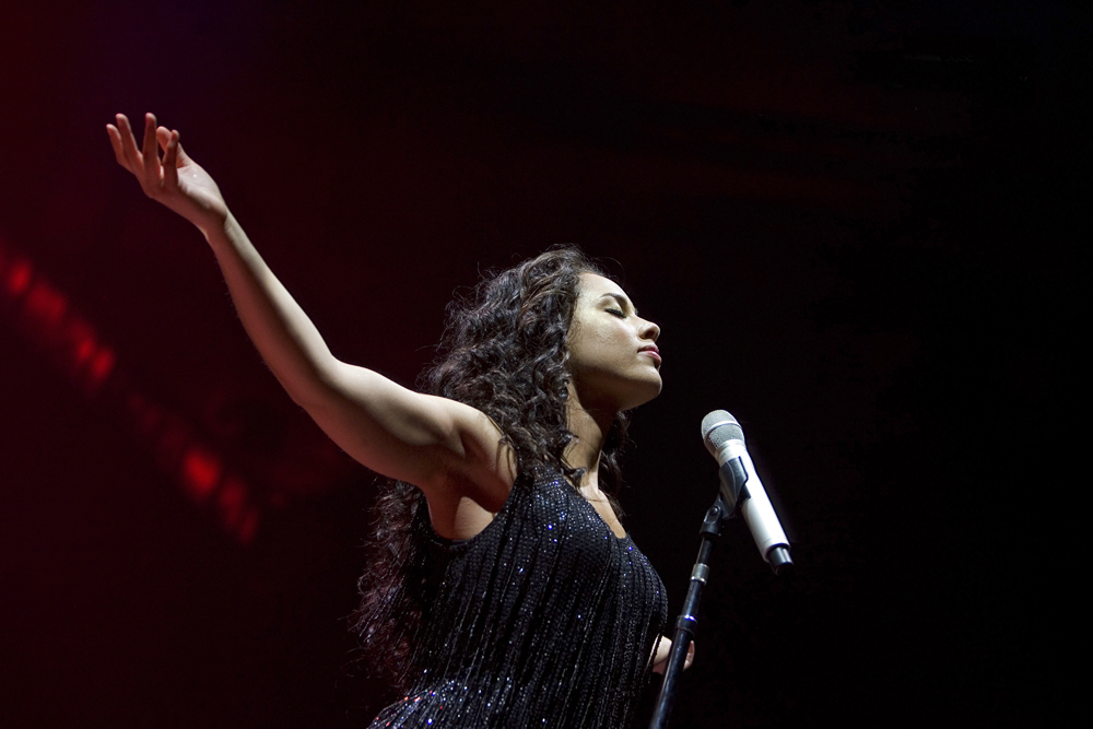 Alicia Keys at Pavilhão Atlântico (Lisbon, Portugal) on March 19, 2008